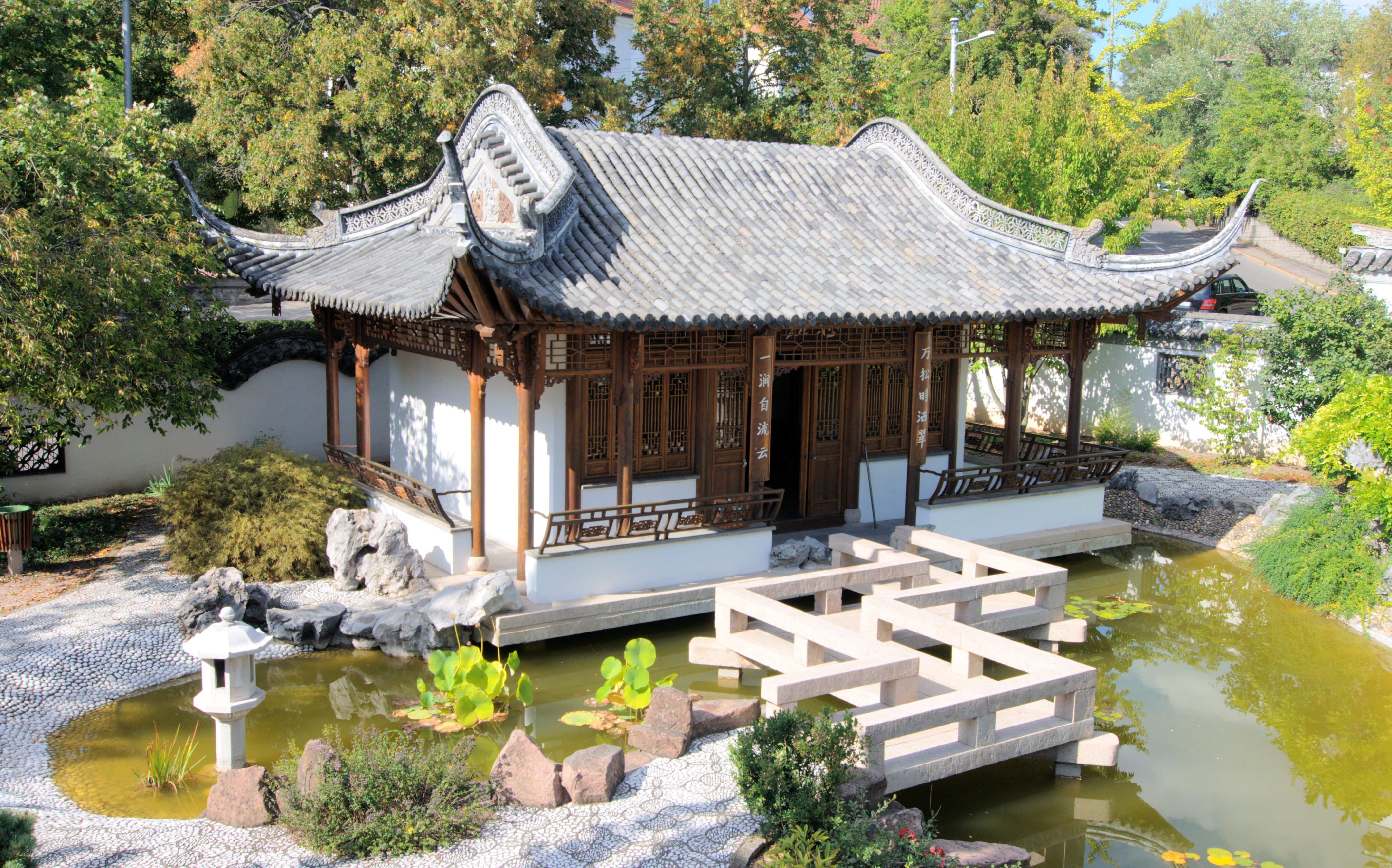 Stuttgart, Qingyin Garden (Garden of the Beautiful Melody)